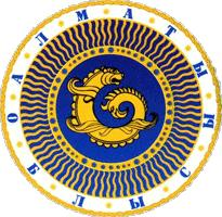 Coat of arms of Almaty Province